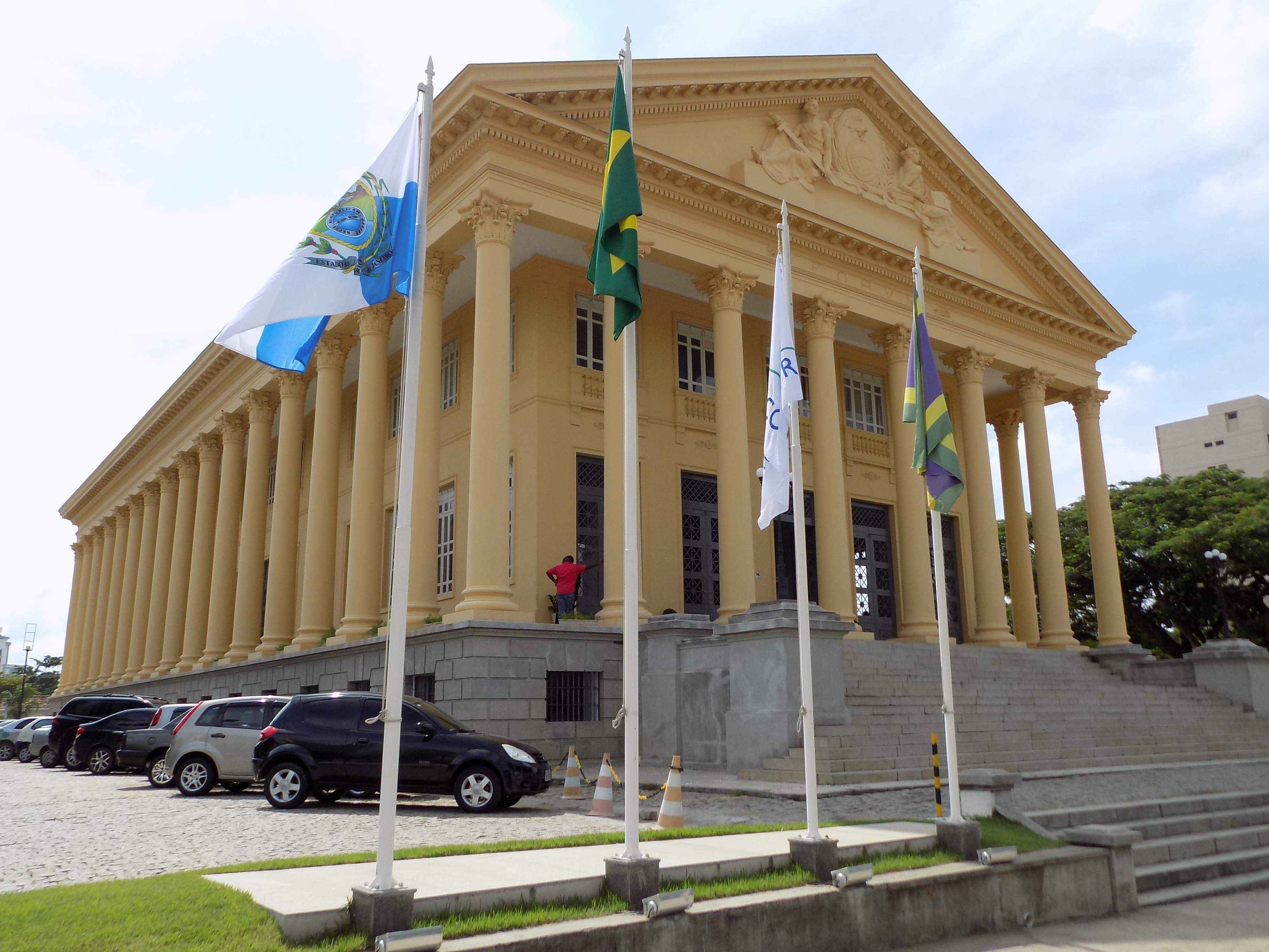 Campos dos Goytacazes City Council